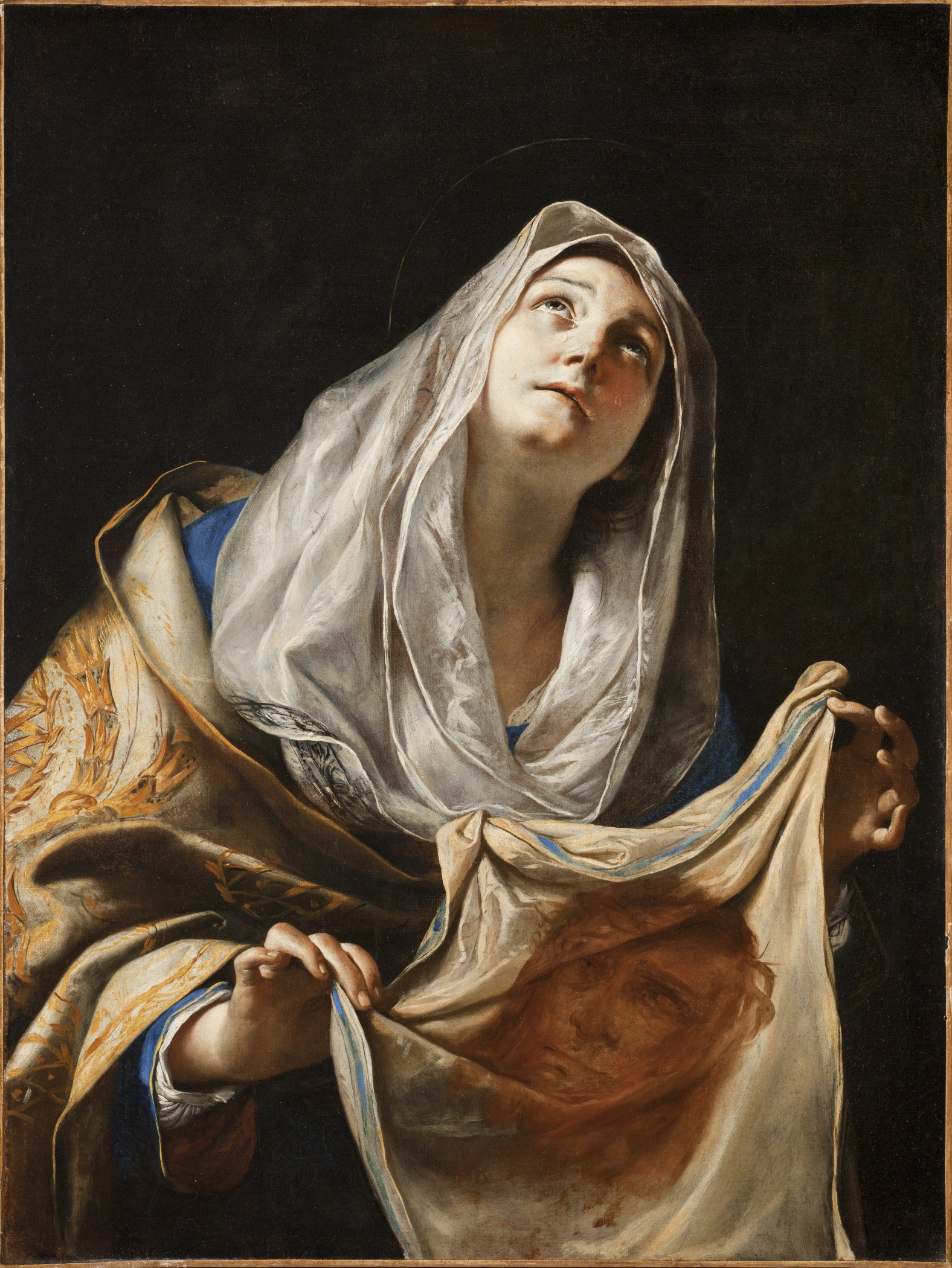 Italy, circa 1655-1660 Paintings Oil on canvas Gift of The Ahmanson Foundation (M.84.20) European Painting Currently on public view: Ahmanson Building, floor 3